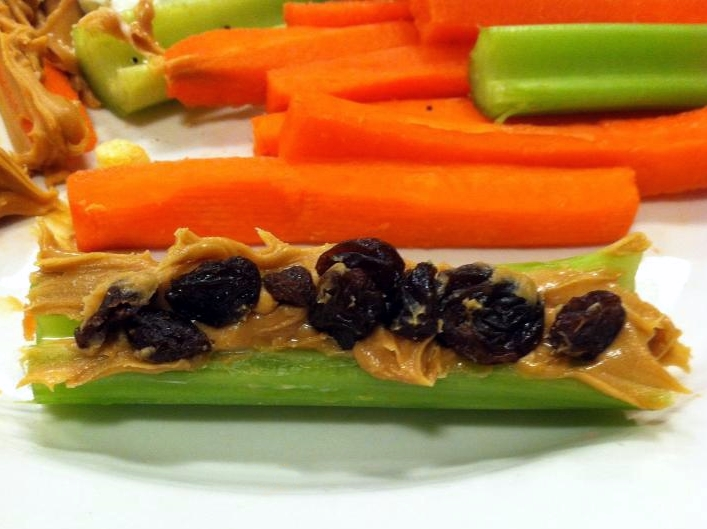 Ants on a log